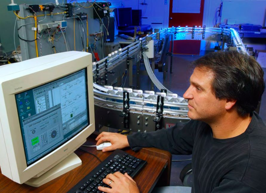 NIST Industrial Control Security Testbed